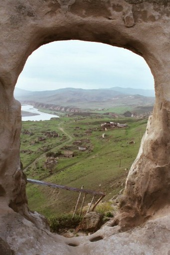 Uplistsikhe, a ruined rock-hewn city of ancient Georgia